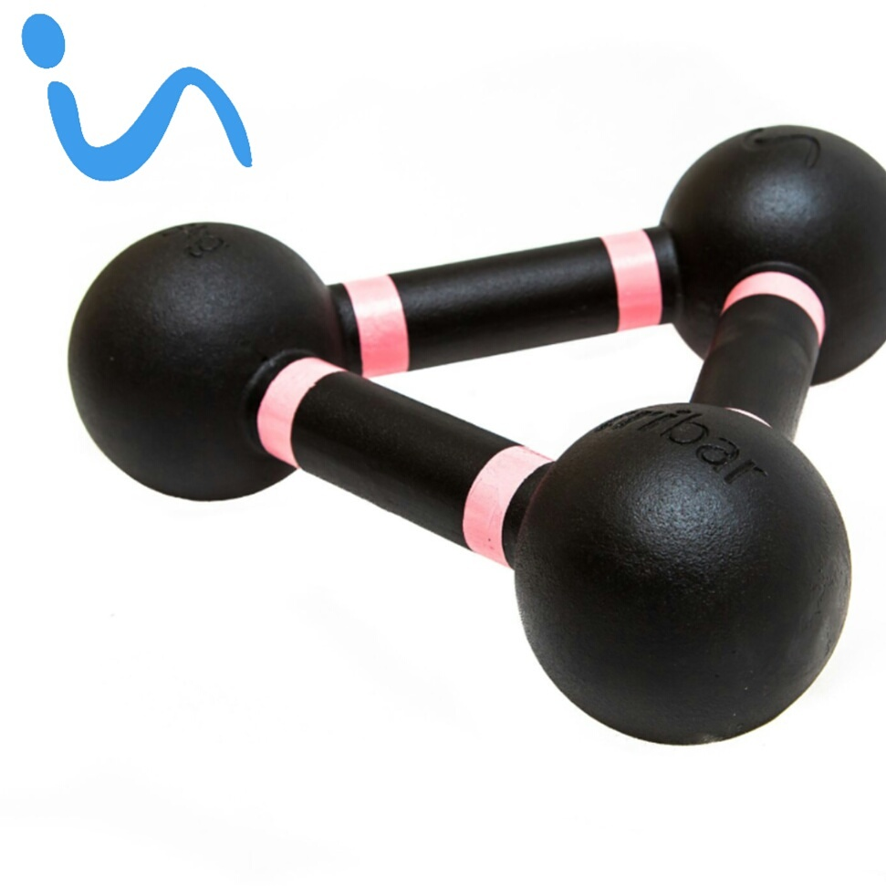 Tribar Weight.